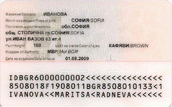 Reverse of the Bulgarian identity card (first issued on 29 March 2010).